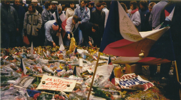 Flowers and candles on Wenceslas Square in November 1989